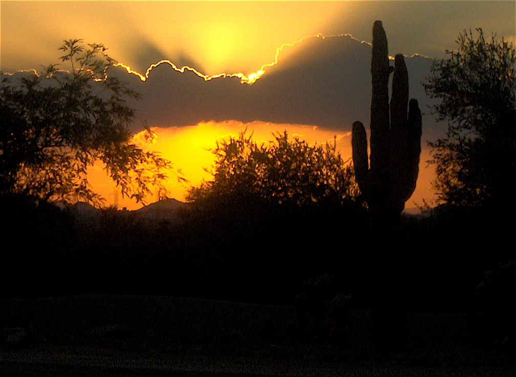 Taken by me, Scottsdale, Arizona.